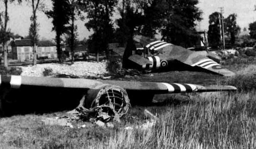 RAF Horsa gliders a hundred yards away from the Bénouville Bridge, now commonly referred to as the Pegasus Bridge.